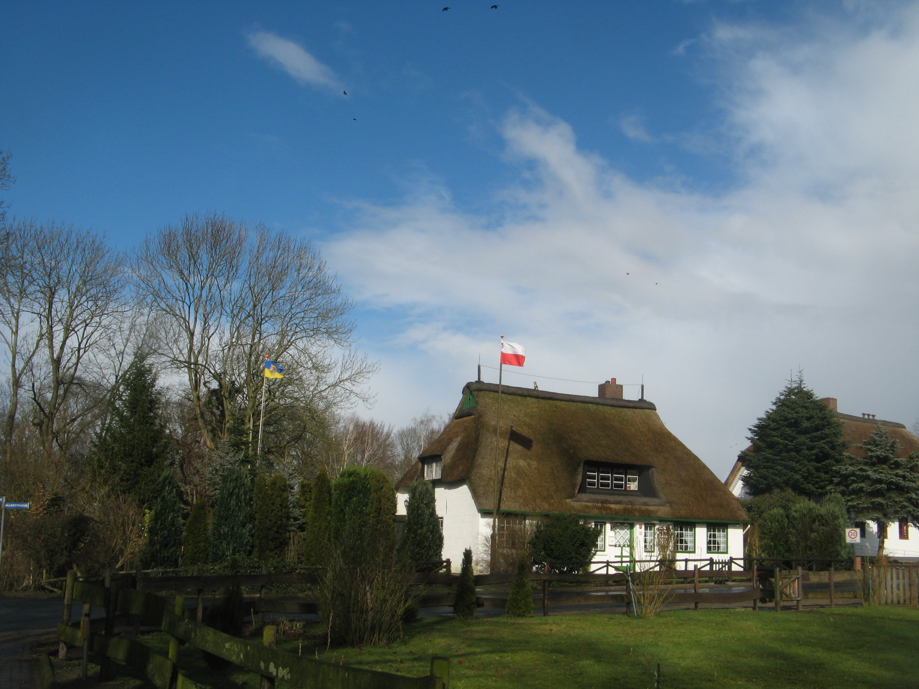 old house in Süderdeich, Holstein, Germany